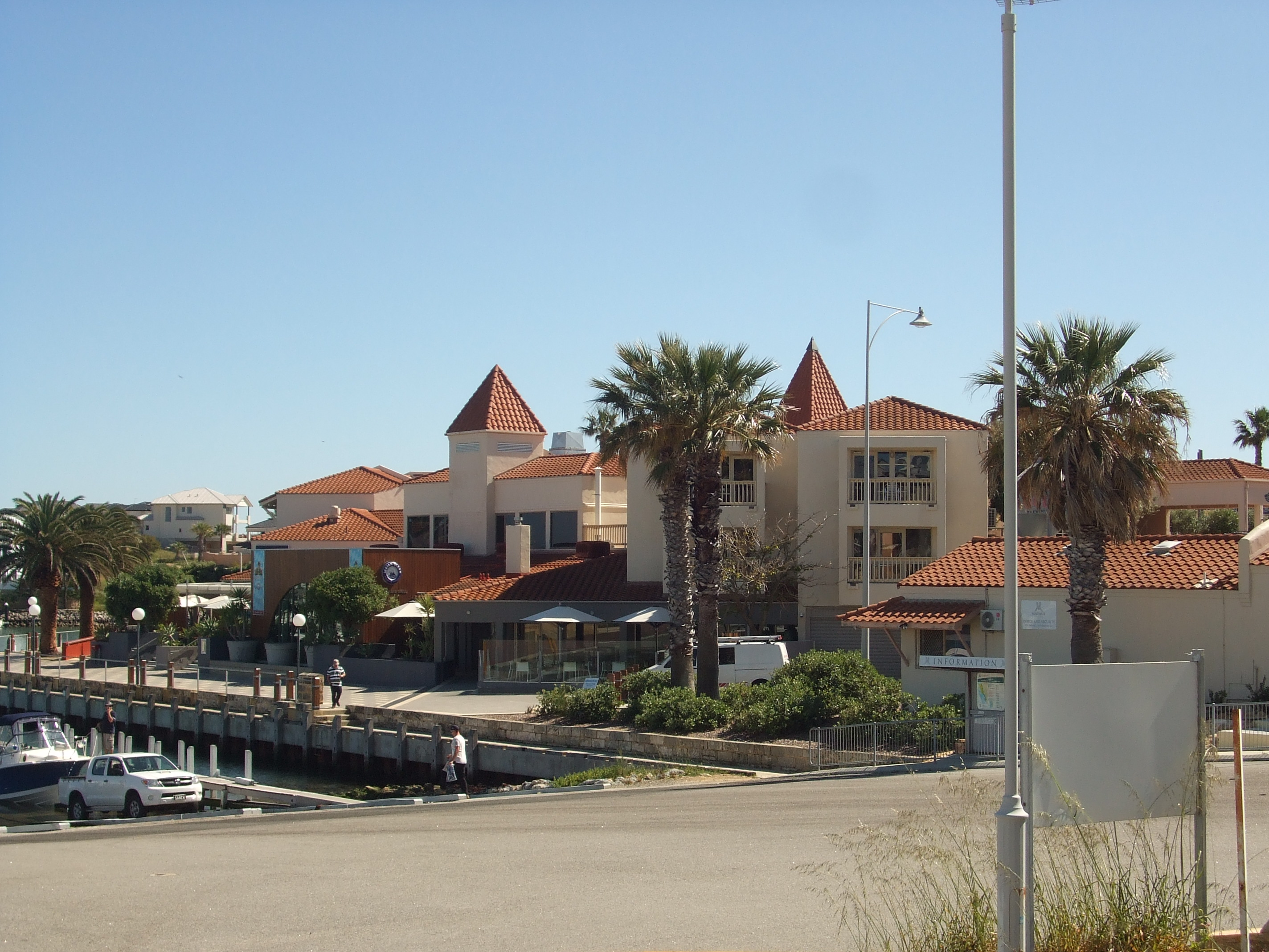 The Mindarie Marina Hotel from across the jetties.